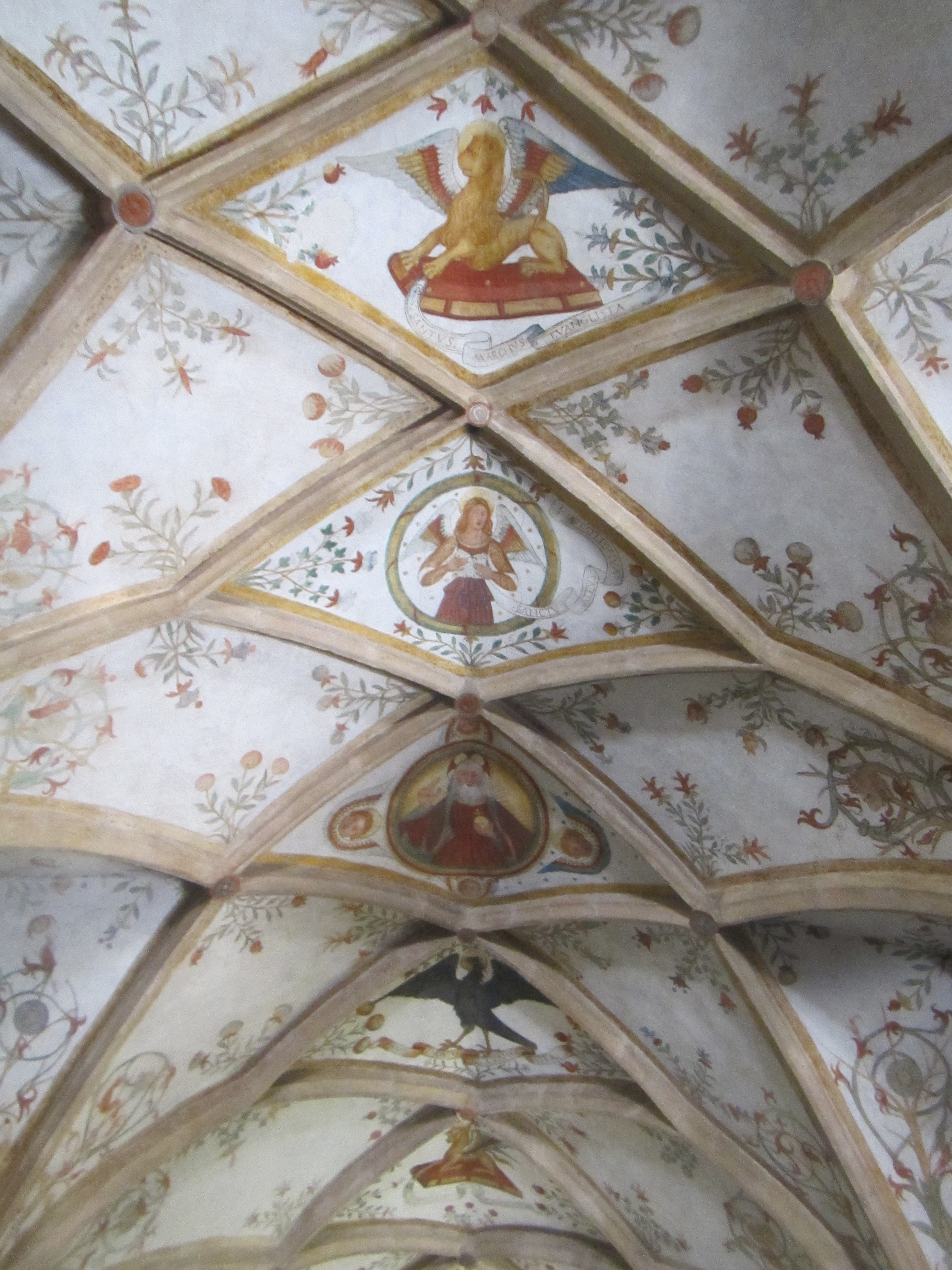 Piazzo, Segonzano - church of the Immaculate - frescos of God and the four evangelists in ceiling of the central nave - 1500